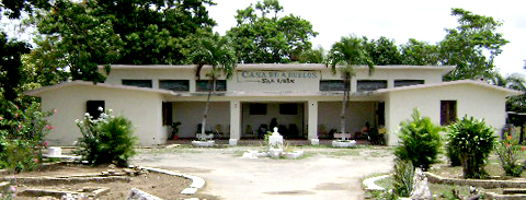 Old House, San Luis, Pinar del Río, Cuba.